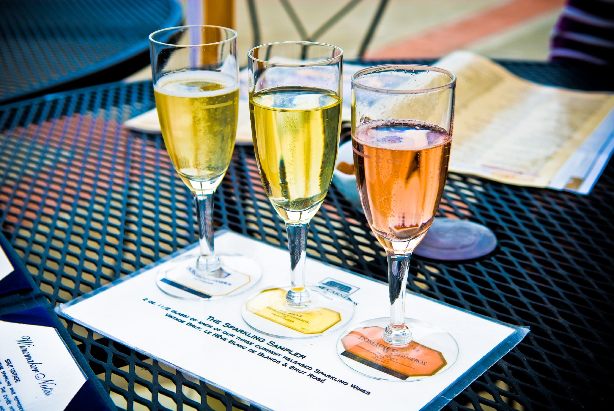 Image of California sparkling wines.